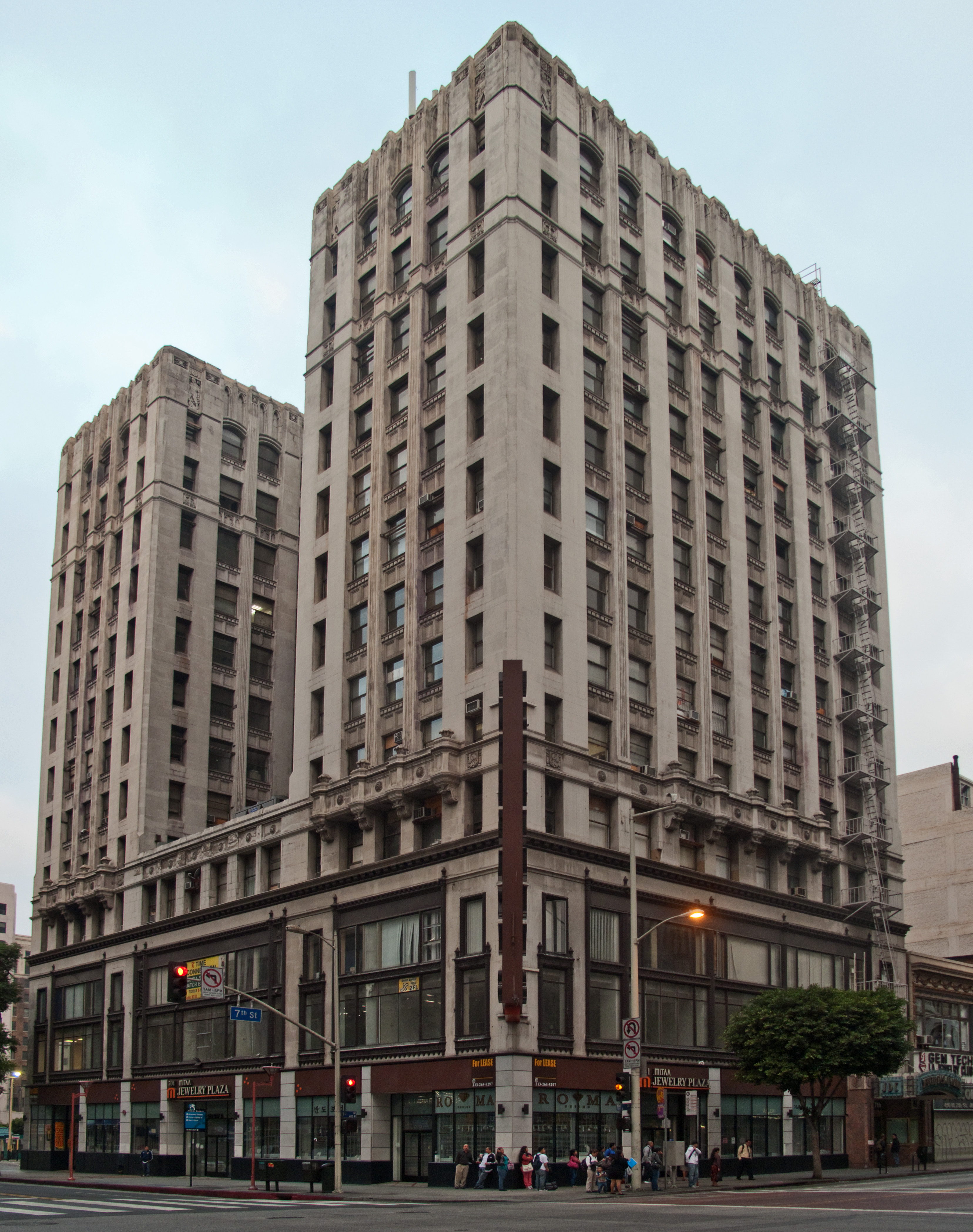 Foreman and Clark Building, 701 S. Hill St., in Downtown Los Angeles. Los Angeles Historic-Cultural Monument #953.